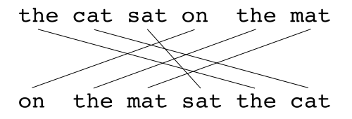 A sample alignment from the METEOR machine translation evaluation algorithm